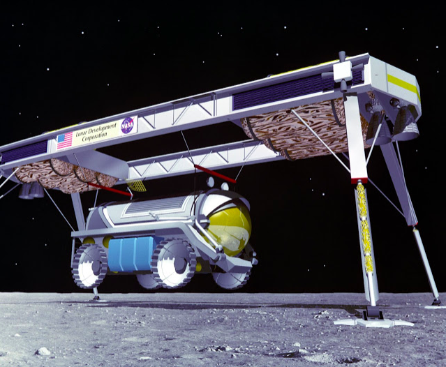 An Energia-launched cargo lander slowly lowers a U.S.-built pressurized moon bus lunar rover to the surface ahead of the arrival of the first two-person ILREC crew. Image credit: NASA